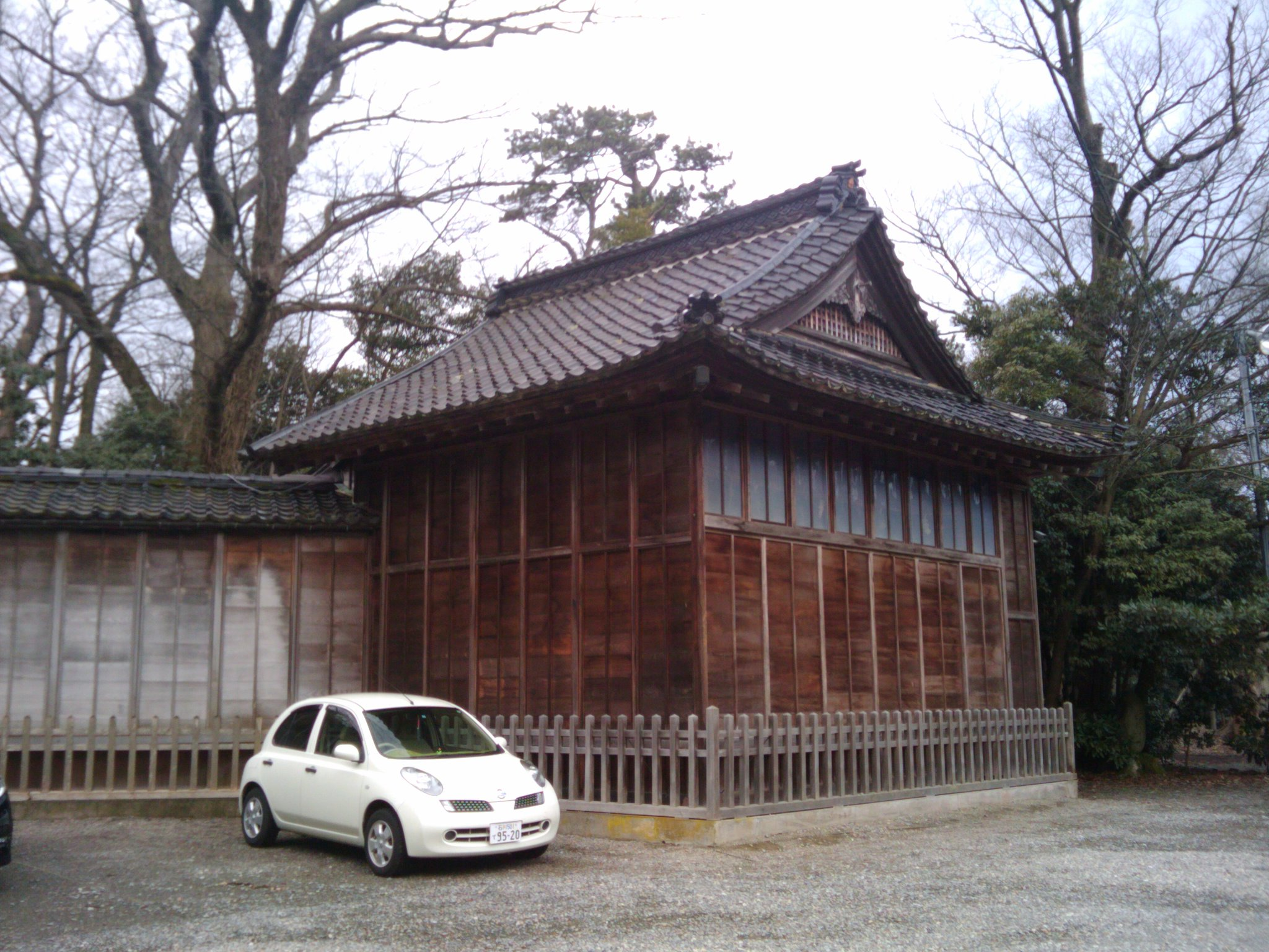 Noh stage in Ohnominato-jinja (Kanazawa, Ishikawa, Japan)